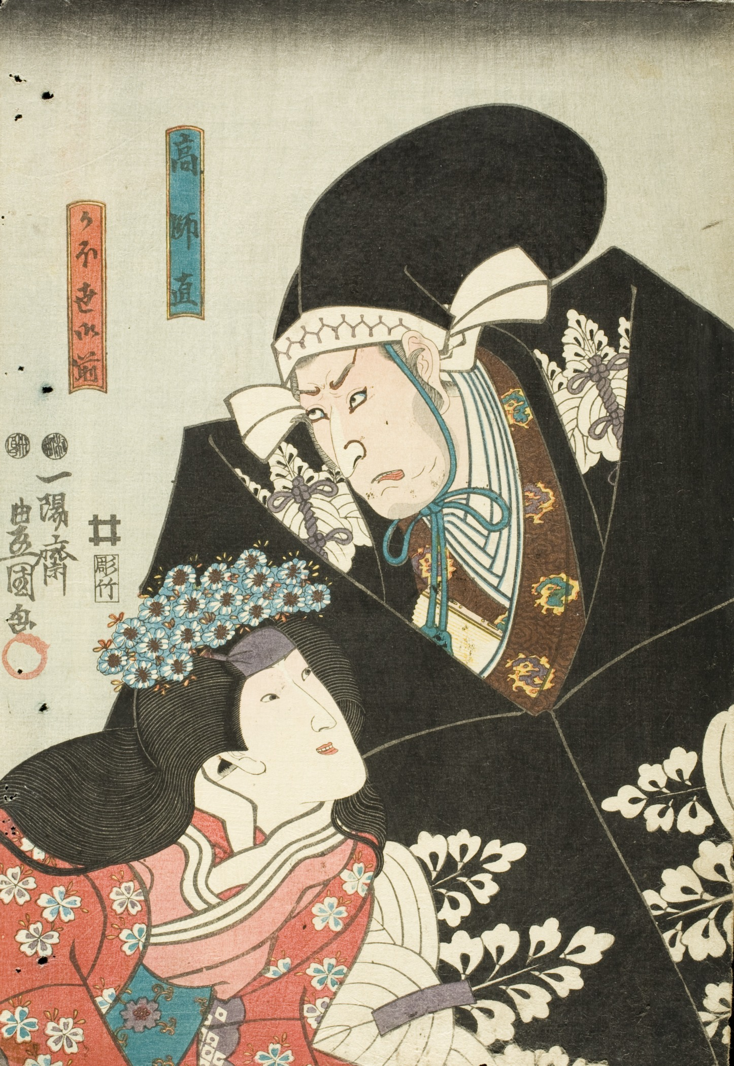 circa 1850 Prints; woodcuts Color woodblock print Image and Sheet: 13 15/16 x 9 5/8 in. (35.41 x 24.45 cm) The Joan Elizabeth Tanney Bequest (M.2006.136.229) Japanese Art